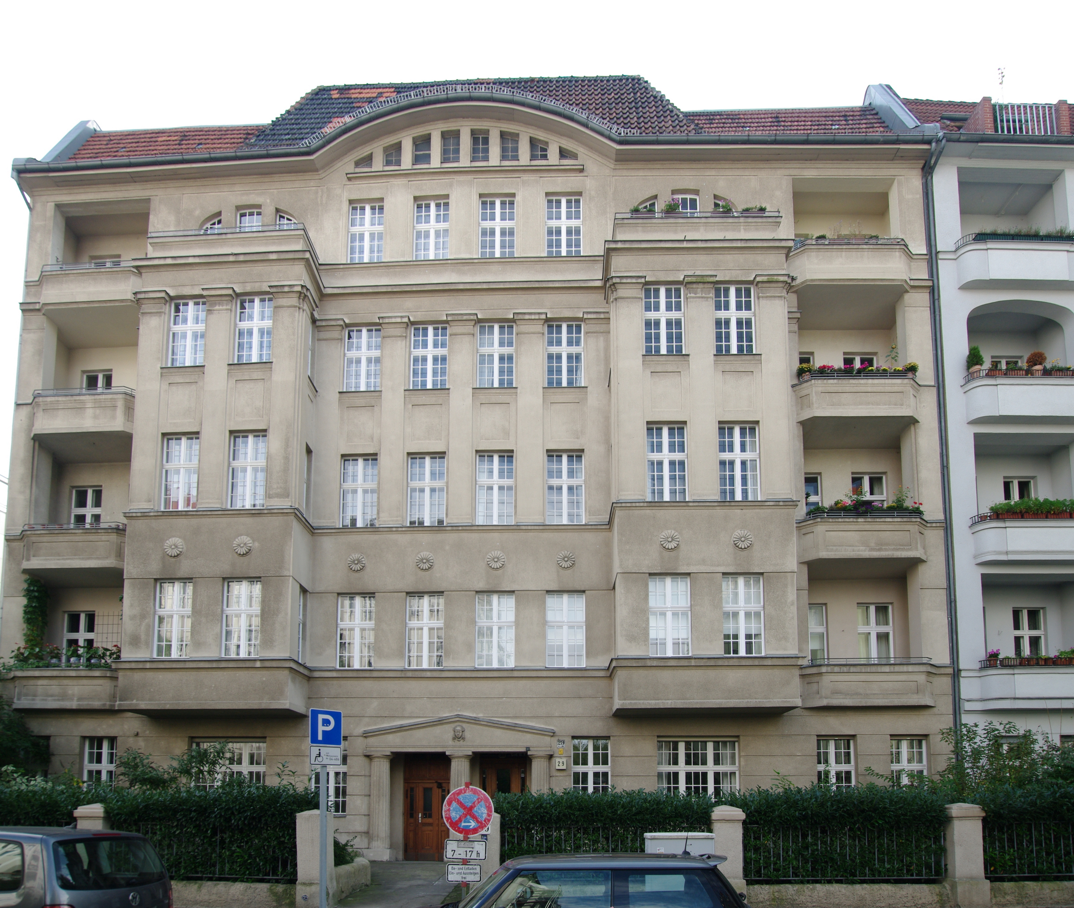 Apartment Building Heylstraße 29, 1911 by Max Abraham